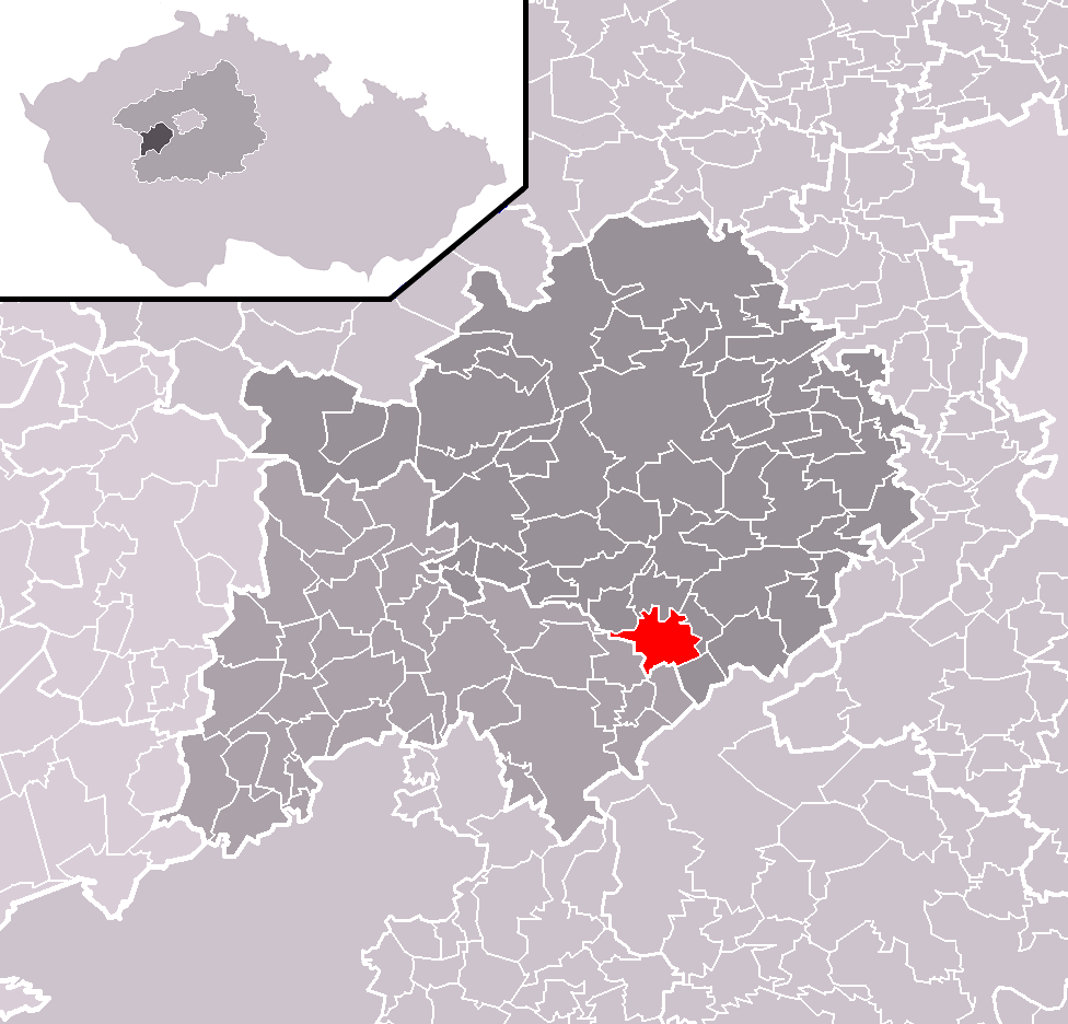 Location of Všeradice municipality within Beroun District and administrative area of Beroun as a Municipality with Extended Competence.